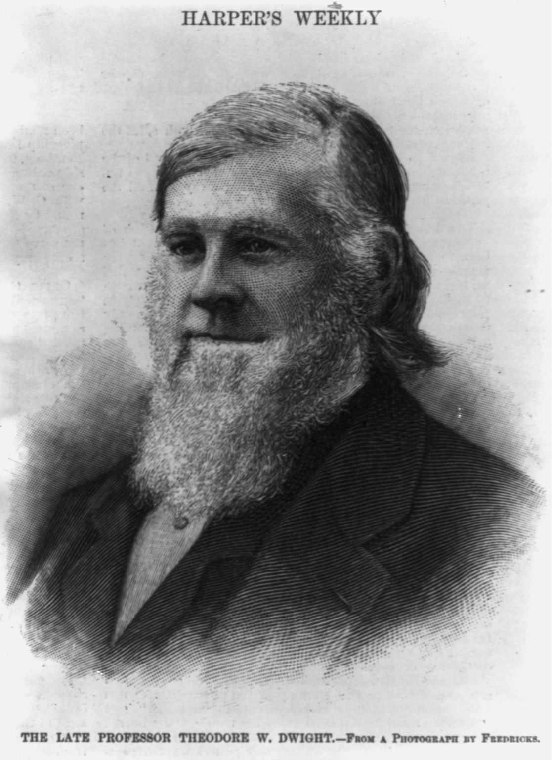 Wood engraving of Theodore William Dwight, founder of New York Law School, after photograph by Fredricks. Illustration in: Harper's Weekly, v. 36 (1892 July 16), p. 692.